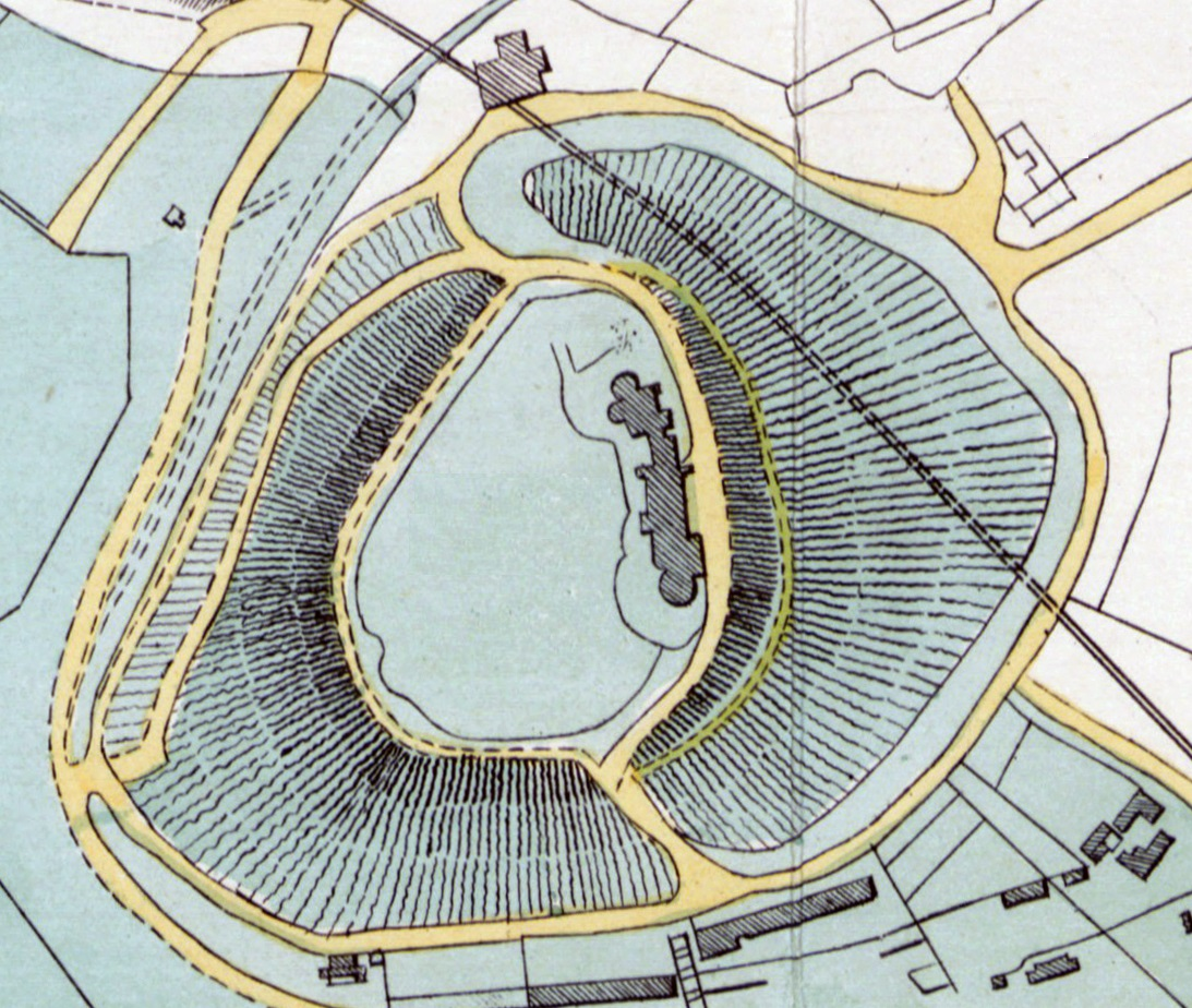 Devizes Castle plan 1883, trimmed and balanced.